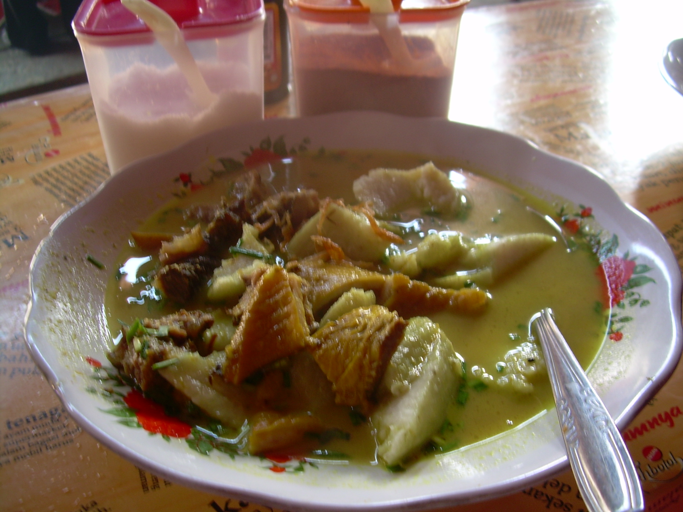 Cirebon's ethnic food